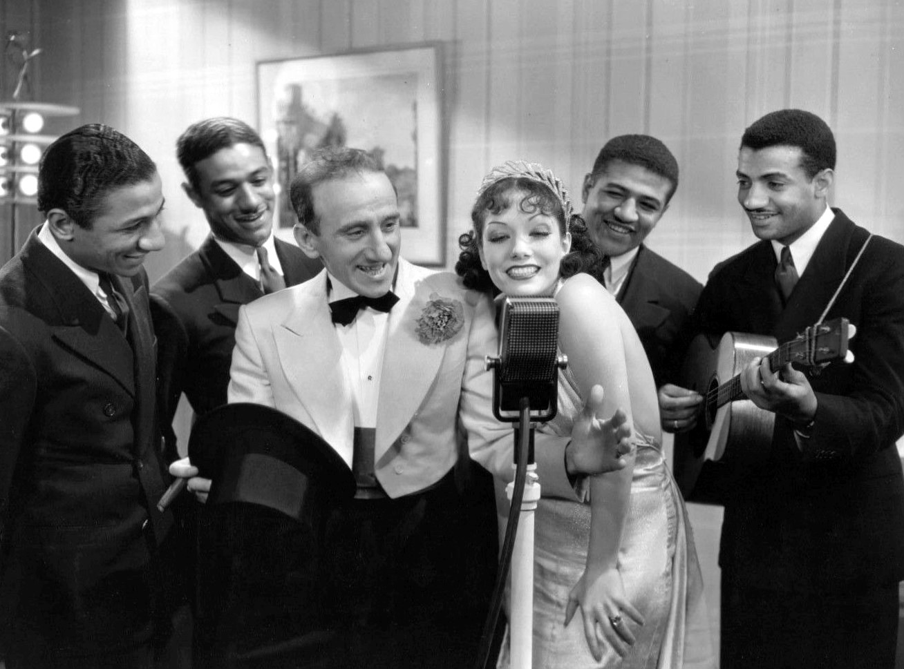 Photo of Jimmy Durante, Lupe Vélez, and the Mills Brothers from the 1934 film Strictly Dynamite.